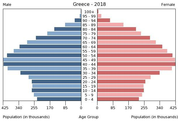 The population pyramid of Greece illustrates the age and sex structure of population and may provide insights about political and social stability, as well as economic development. The population is distributed along the horizontal axis, with males shown on the left and females on the right. The male and female populations are broken down into 5-year age groups represented as horizontal bars along the vertical axis, with the youngest age groups at the bottom and the oldest at the top. The shape of the population pyramid gradually evolves over time based on fertility, mortality, and international migration trends.